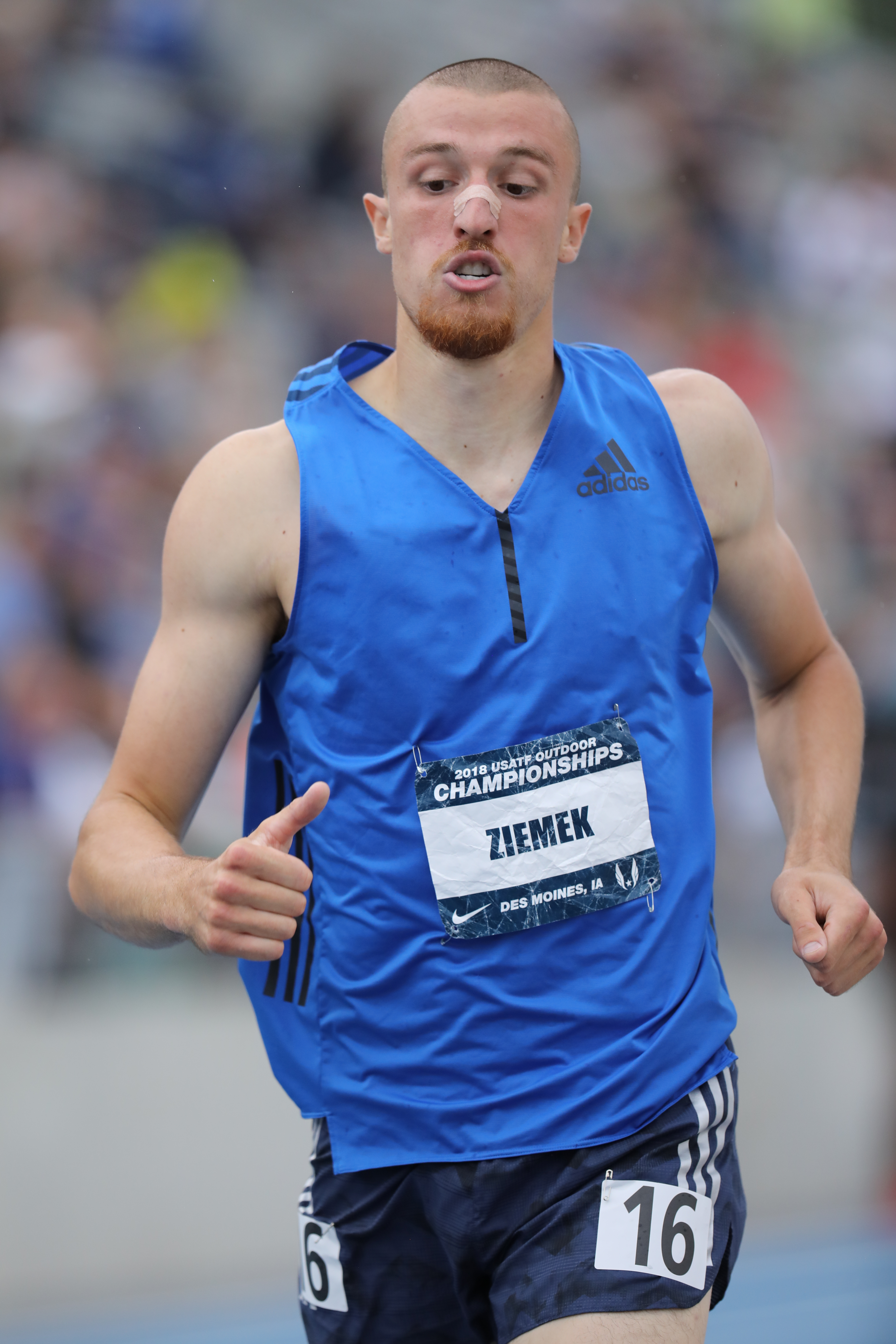 2018 USA Outdoor Track and Field Championships